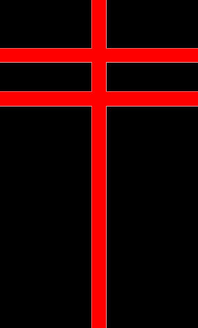 Emblem of the Norsefire, fictional political party in the film V for Vendetta